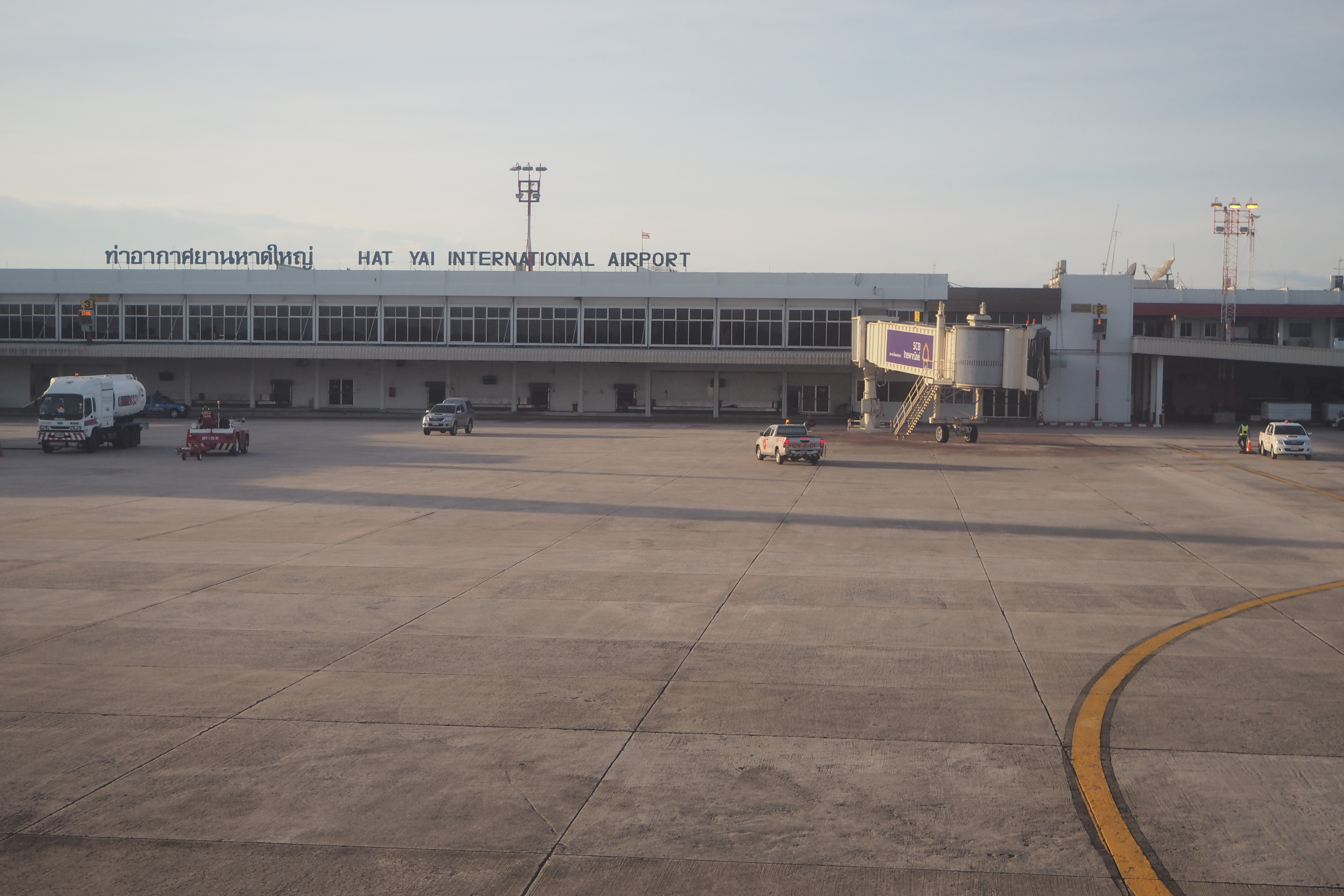 Gate 2 in HDY